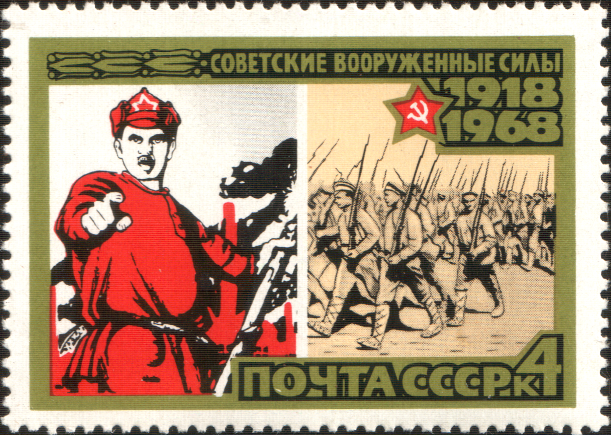 USSR stamp: “Did You Volunteer?” Poster (D. Moor, 1920) and Young Red Army. Series: 50th Anniversary of Soviet Armed Forces (Soviet Armed Forces)